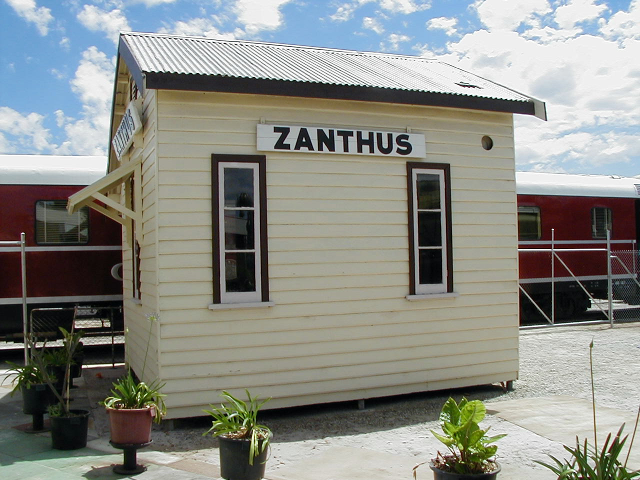 Old cabin from Zanthus, Western Australia now at Bassendean rail museum.